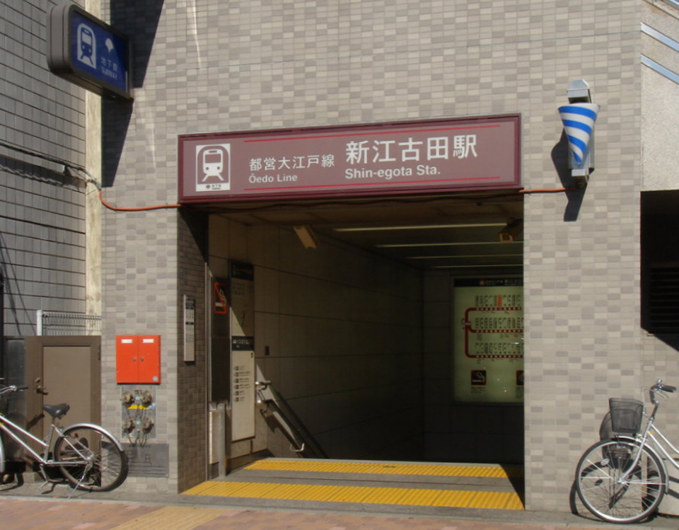 Entrance A2 to Shin-egota Station on the Toei Oedo Line in Tokyo, japan